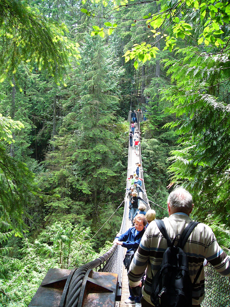 Lynn_Canyon_Park